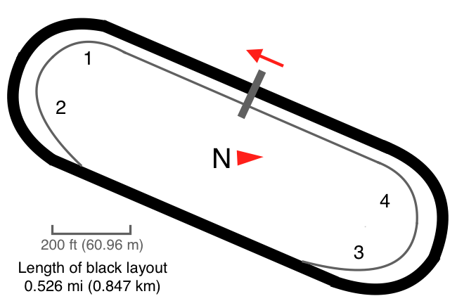 The file is a map of the Martinsville Speedway.